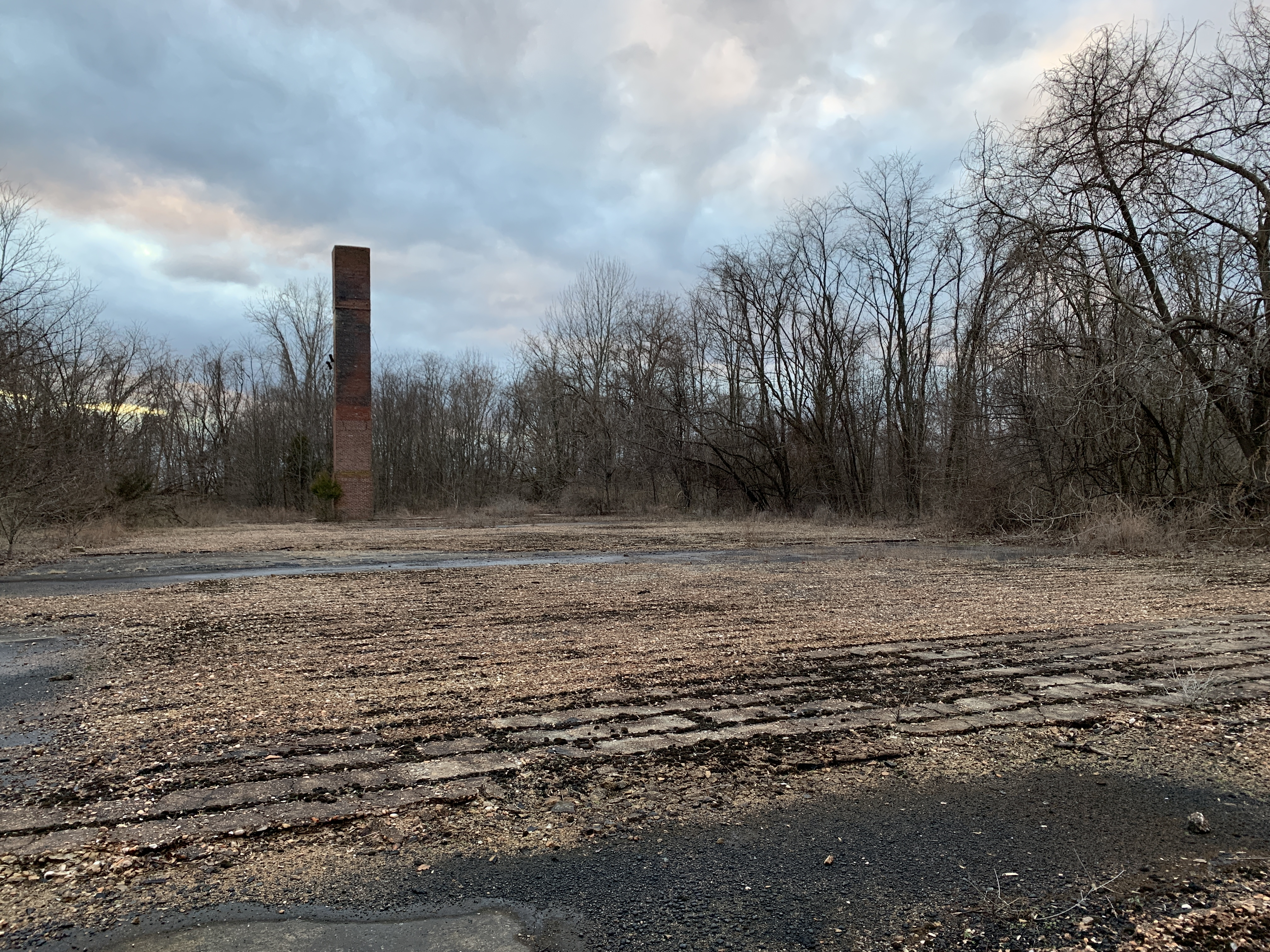 Chimney abandoned